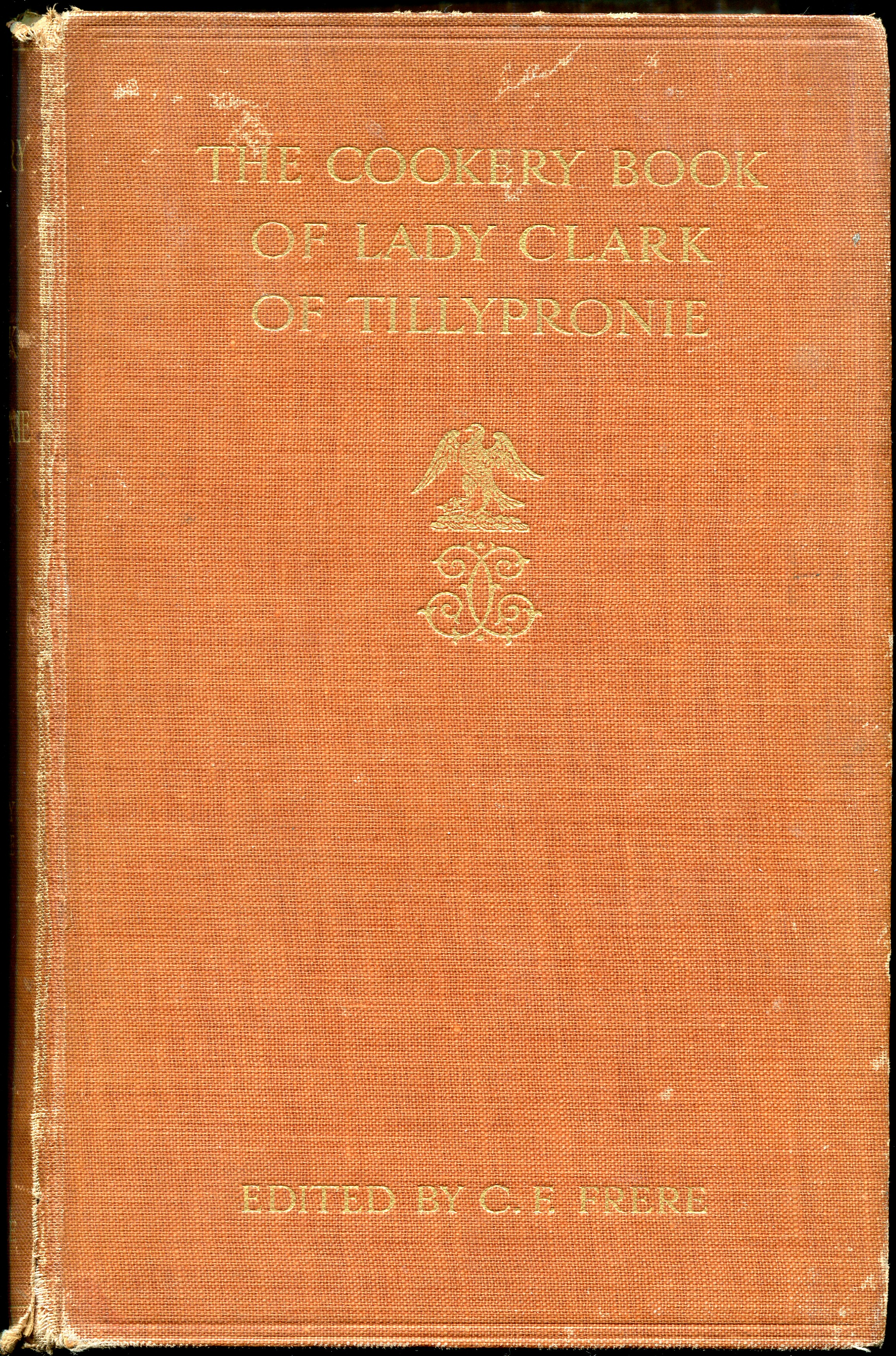 Front cover of The Cookery Book of Lady Clark of Tillypronie, arranged and edited by Catherine Frances Frere. London:Constable, 1909.